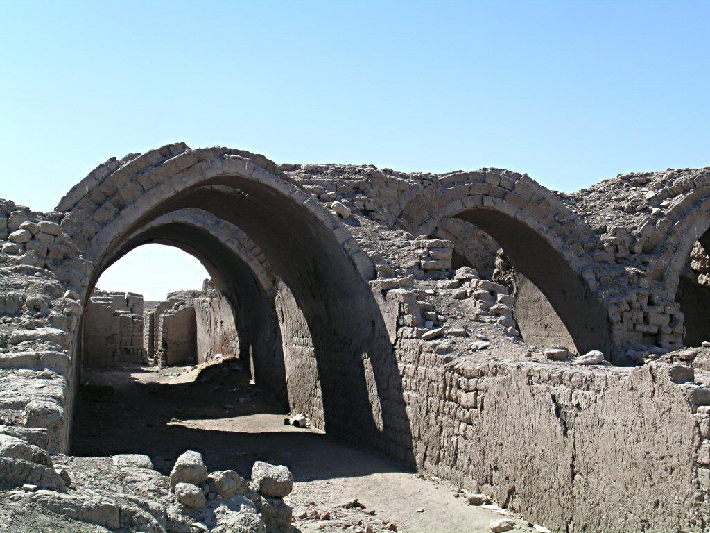 Egyptian vignettes (storage vaults) located at the Ramesseum on the West Bank at Luxor, Egypt